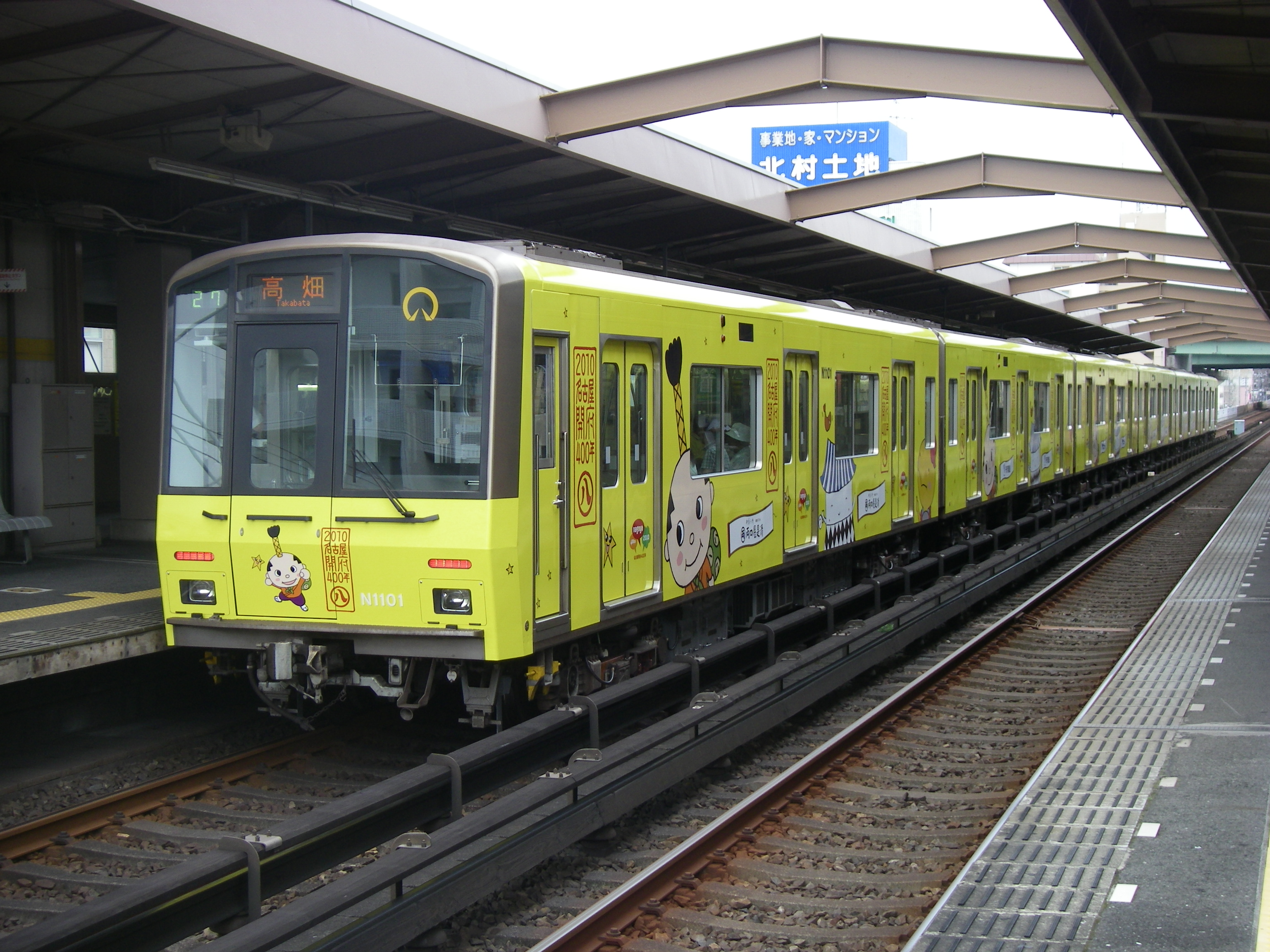 Japanese train lapping